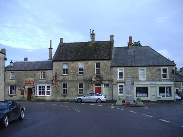 The Lord Nelson, Marshfield At the east end of the main street.